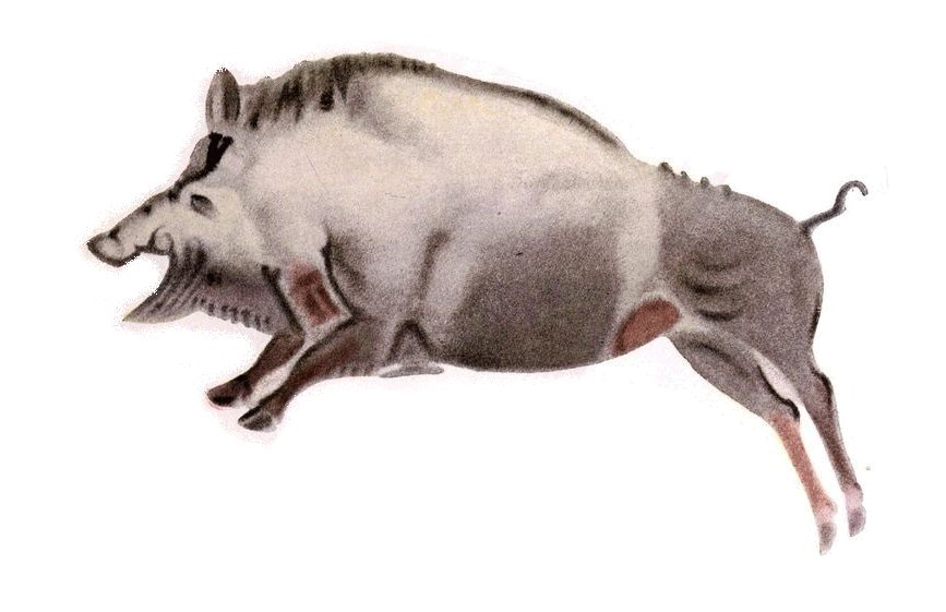 Cave paintings from Altamira.